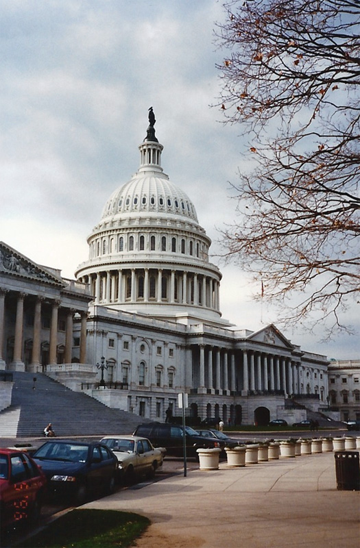 In 1996, I made my first-ever visit to Washington, DC, using the Election Day long weekend, while I was a college student in New York City. I spent four days in the capital, and my emphasis was primarily to cover various topics that I had learned in my high school history and government/civics classes. The east steps of the Capitol. Having done the White House tour on my arrival day, I am about to do tours of the Capitol and the Supreme Court on this departure day, to round out coverage of all three branches of the US federal government. Photographs were allowed in the Capitol and at the Supreme Court, but given my lackluster camera and film then, I did not get shots worth scanning and uploading.